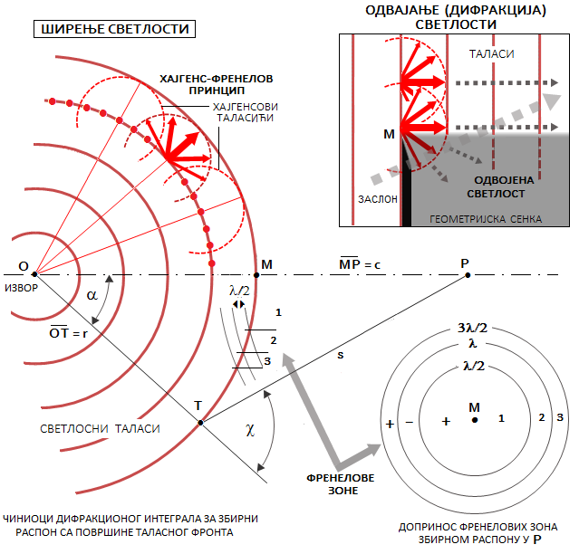 ХАЈГЕНС-ФРЕНЕЛОВ ПРИНЦИП, ДИФРАКЦИЈА СВЕТЛОСТИ